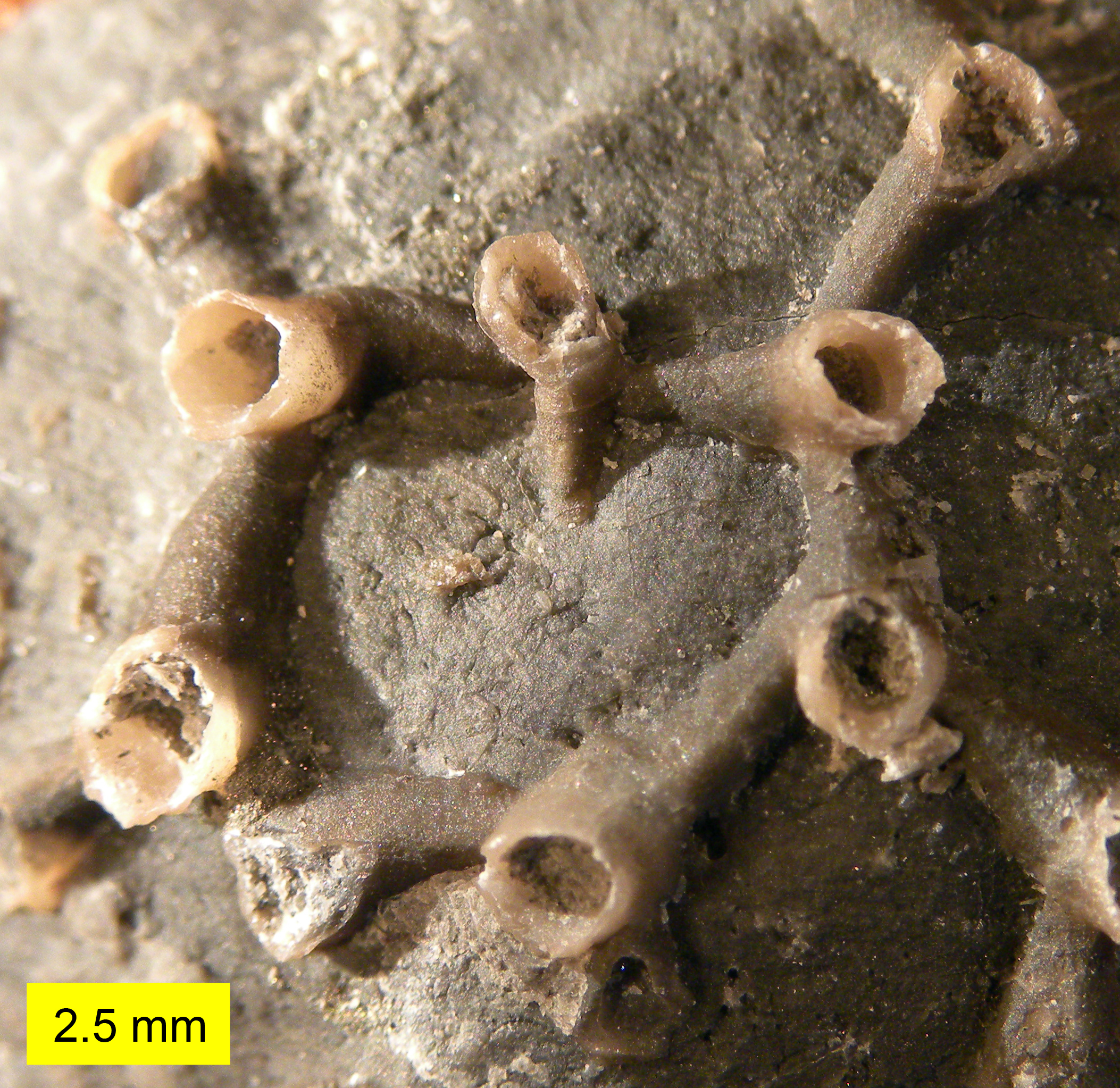 Aulopora (a tabulate coral) from the Silica Shale (Middle Devonian), northwestern Ohio. Specimen collected by Brian Bade.